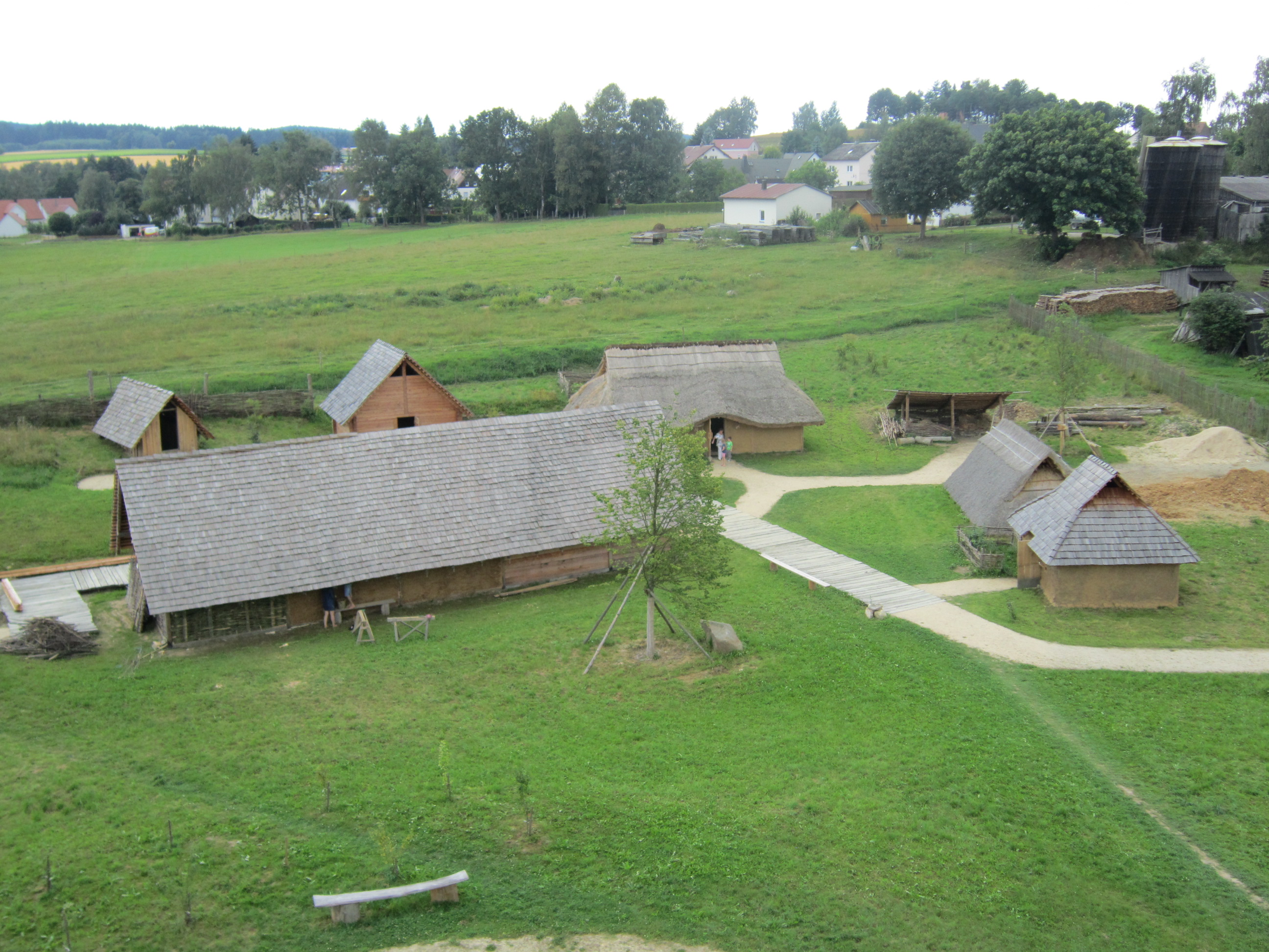 History Park Bärnau-Tachov; village of the Early Middle Age